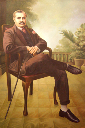 Hand tinted portray of Bhai Lekhraj Kripalani, founder of the Brahma Kumaris religious movement